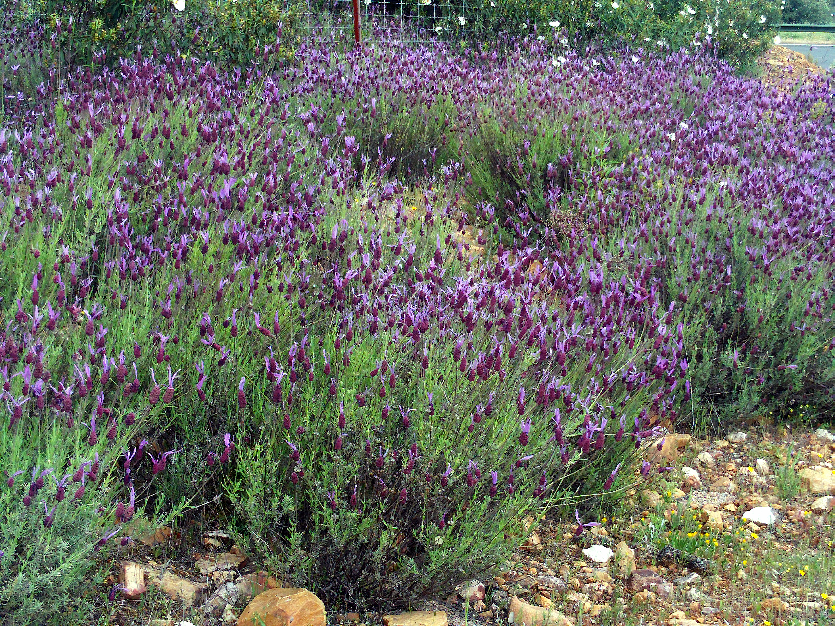 Lavandula stoechas subsp. pedunculata habitus, Sierra Madrona, Spain